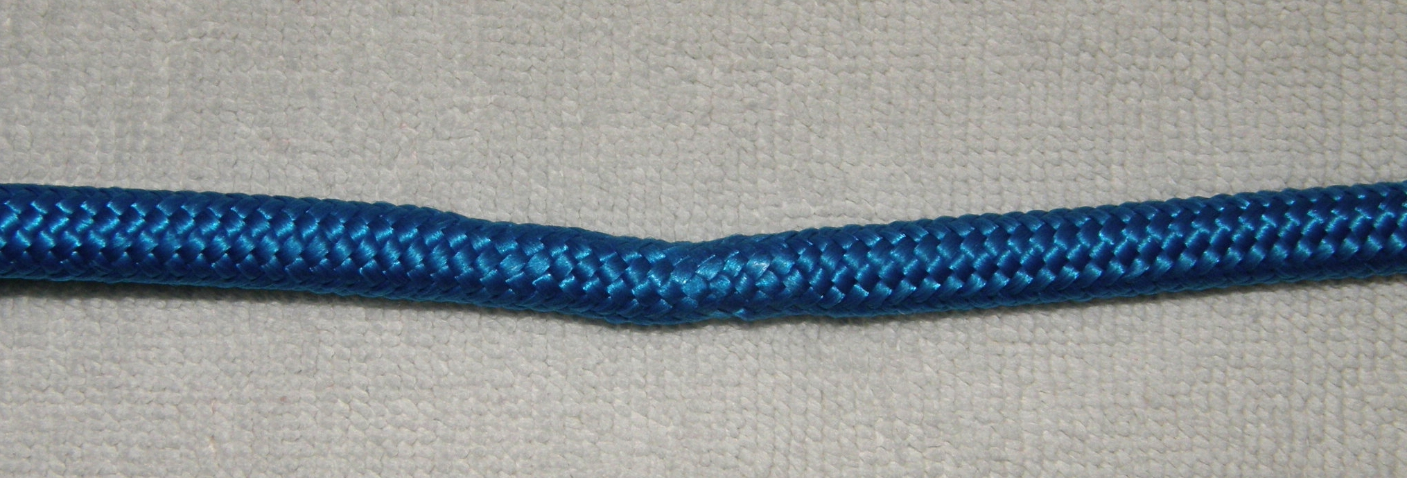 „Rope with compression“ after knot over 24 hours with 100 KG (Ashley Hitch#1740)